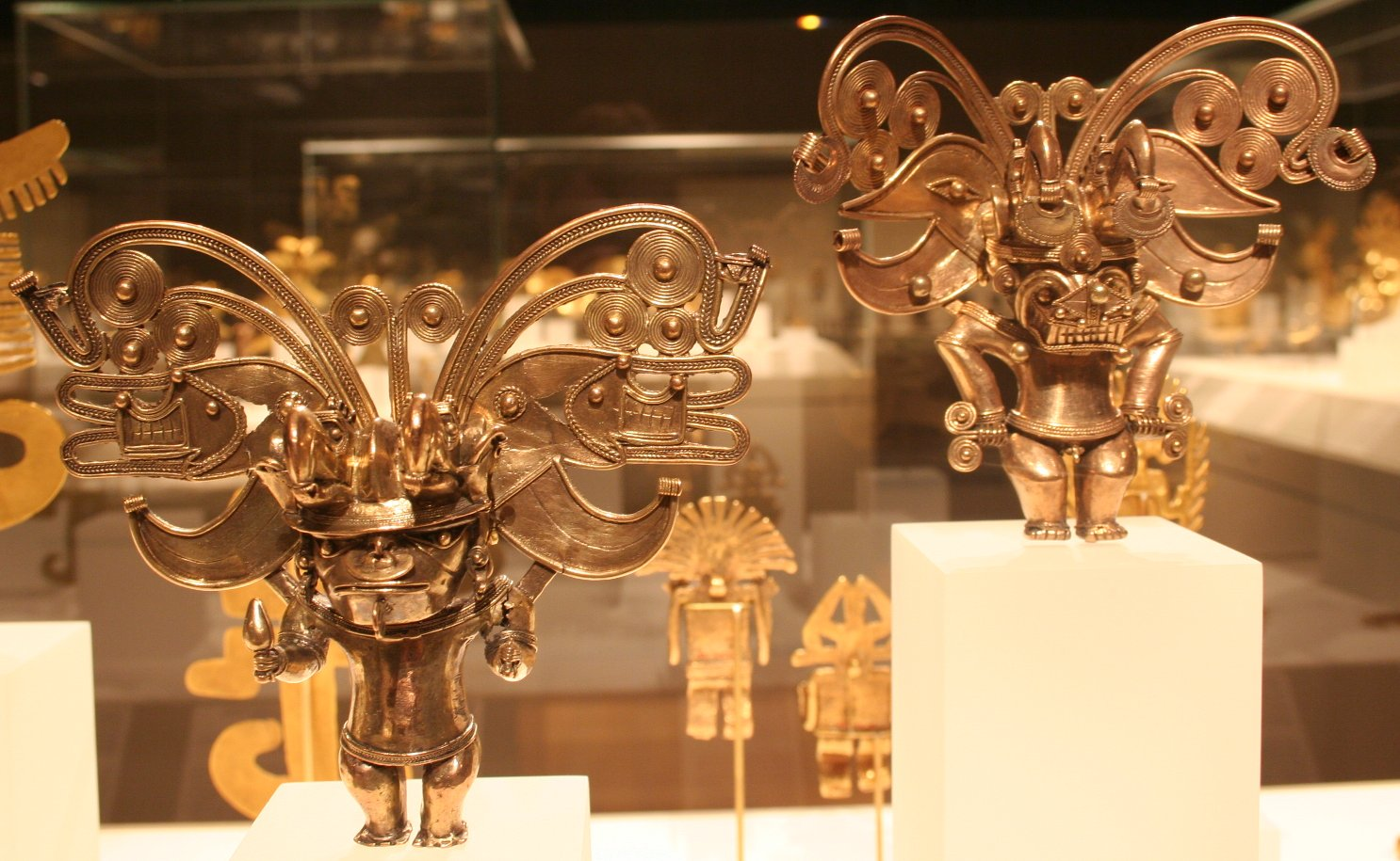 Photograph of Tairona gold pendants in the Metropolitan Museum of Art, New York City, New York, USA taken by Rolf Müller on February 11 2006 using a Canon Inc. EOS 350D digital camera with an EFS 18-55mm lens. Copied from